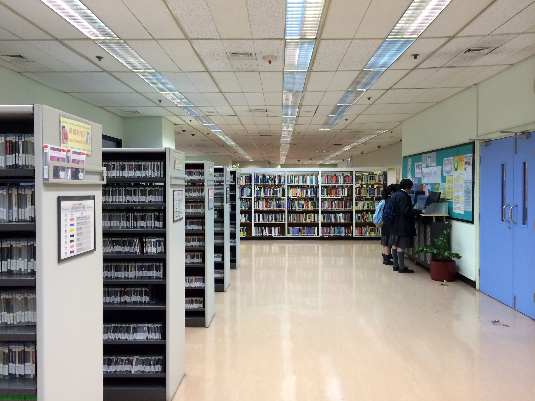 Tsuen Wan Public Library interior